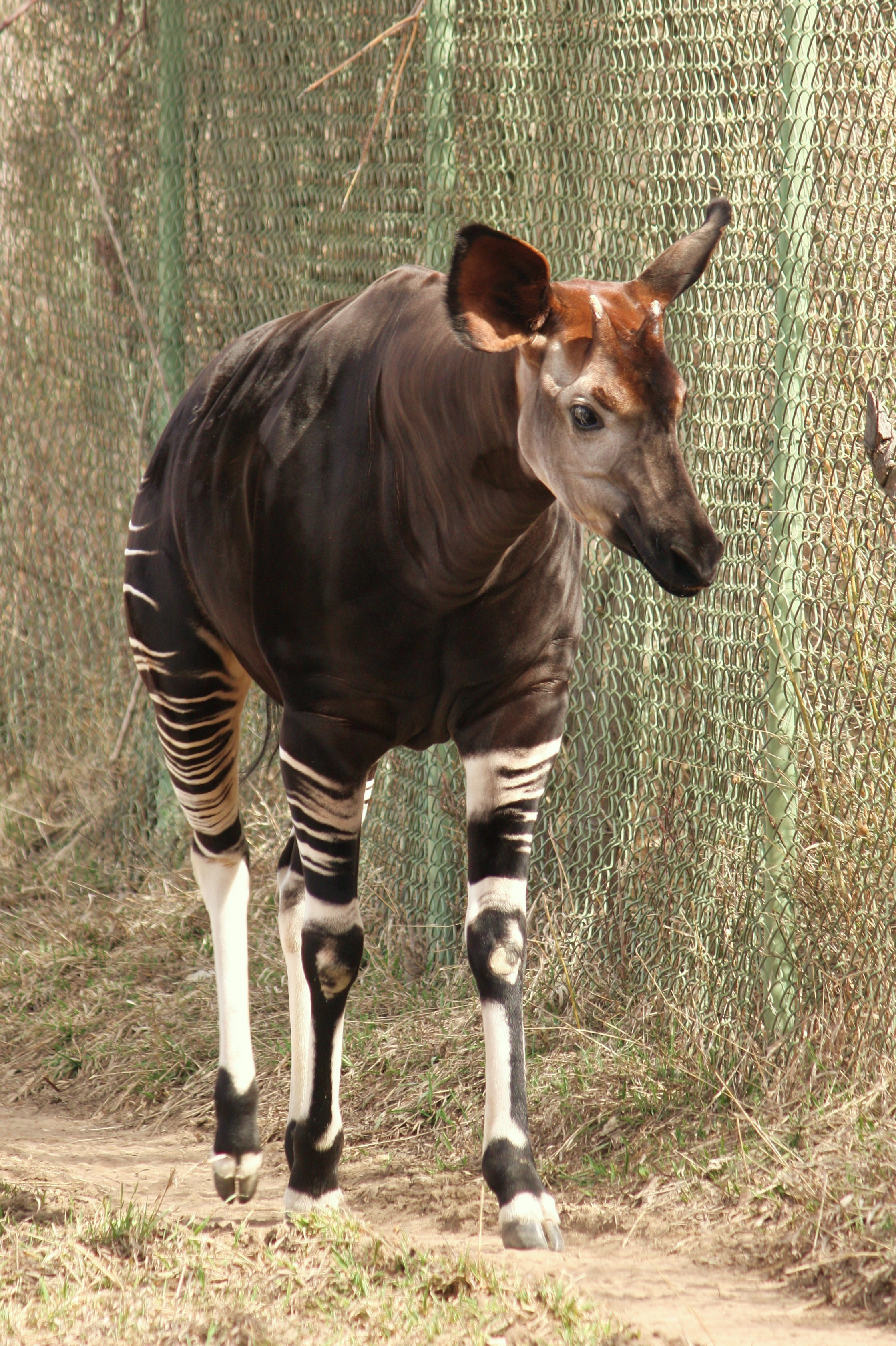 Okapi (Okapia johnstoni); male. Denver Zoo, Denver, Colorado.